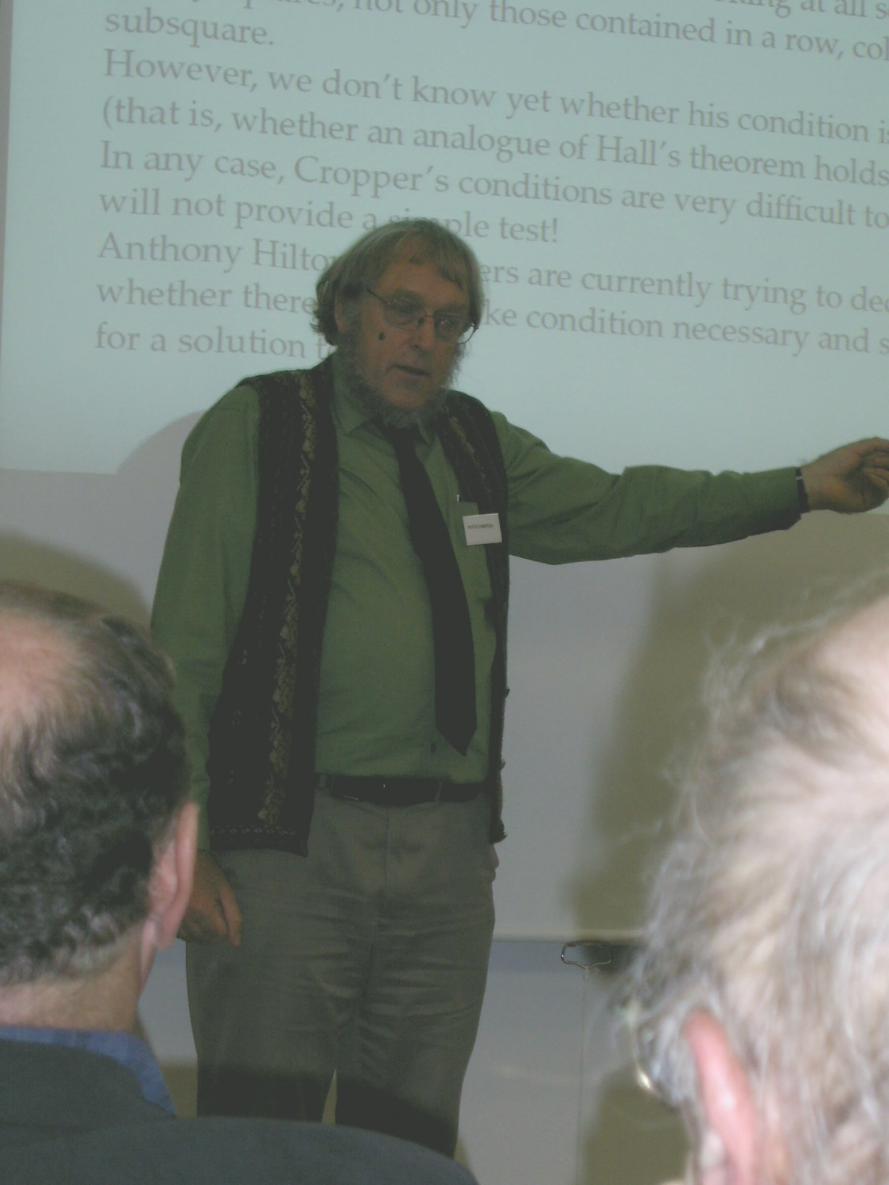 Peter Cameron giving the Dame Kathleen Ollerenshaw lecture in the Alan Turing Building in 2007